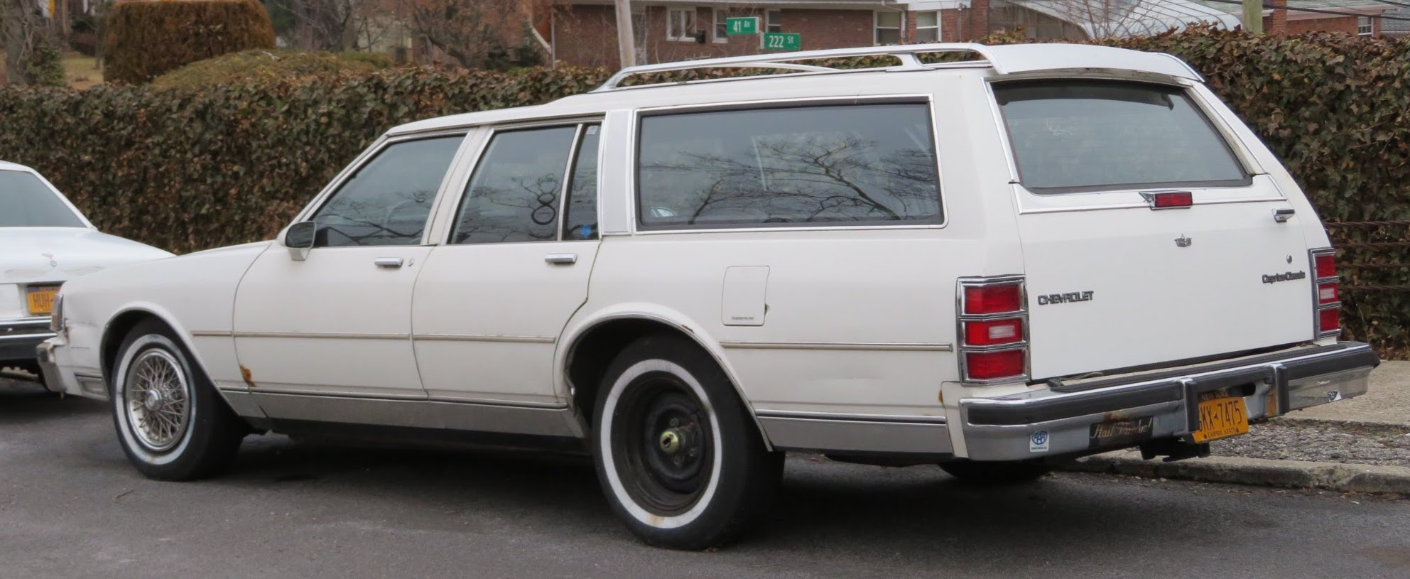 In Bayside, New York.